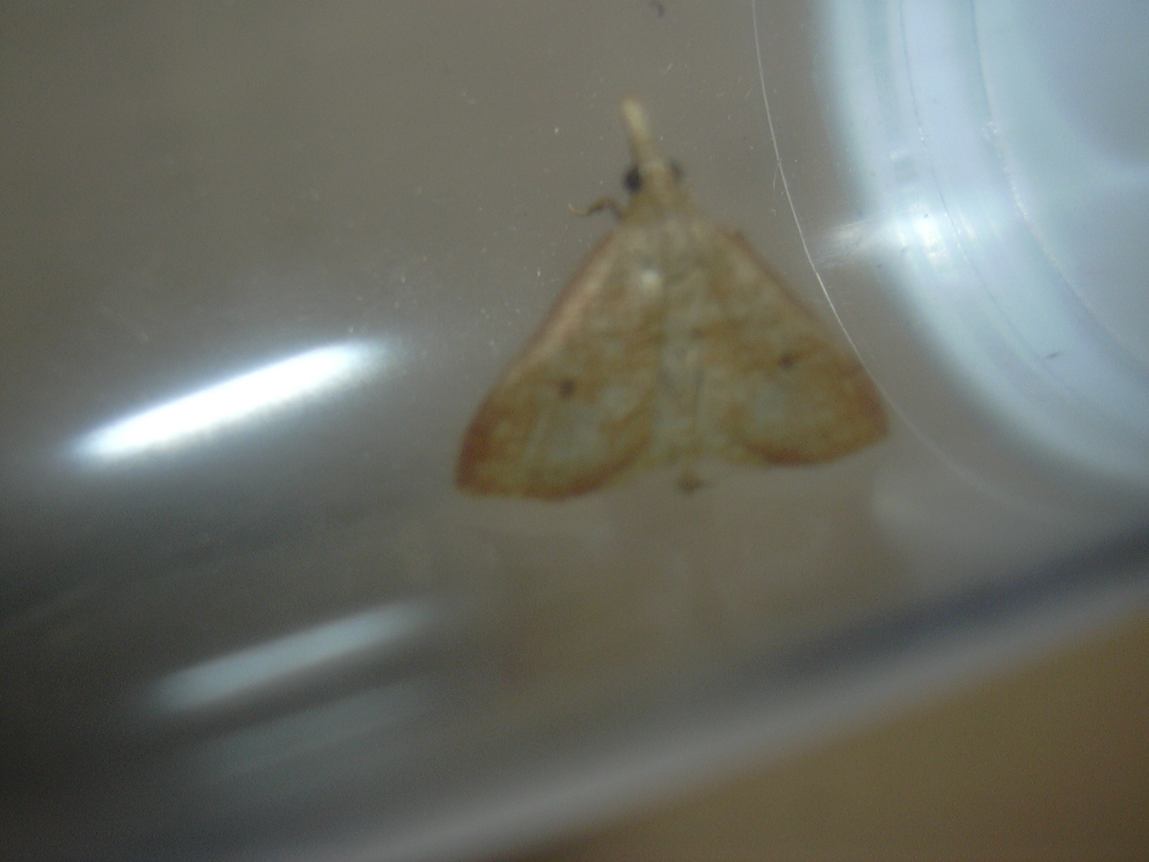 Scaevola taccada (Udea litorea). Location: Maui, Kahului Airport